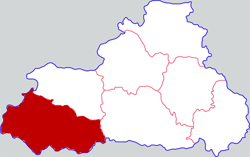 Location of Zhen'an county in Shangluo city, China